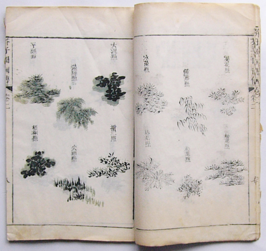 Two pages of Manual of Mustard Seed Garden (Jieziyuan Huazhuan), 1st Set 2nd volume, edition in 1782 published in Sushu,China, color woodblock printing on paper, bound by stitching